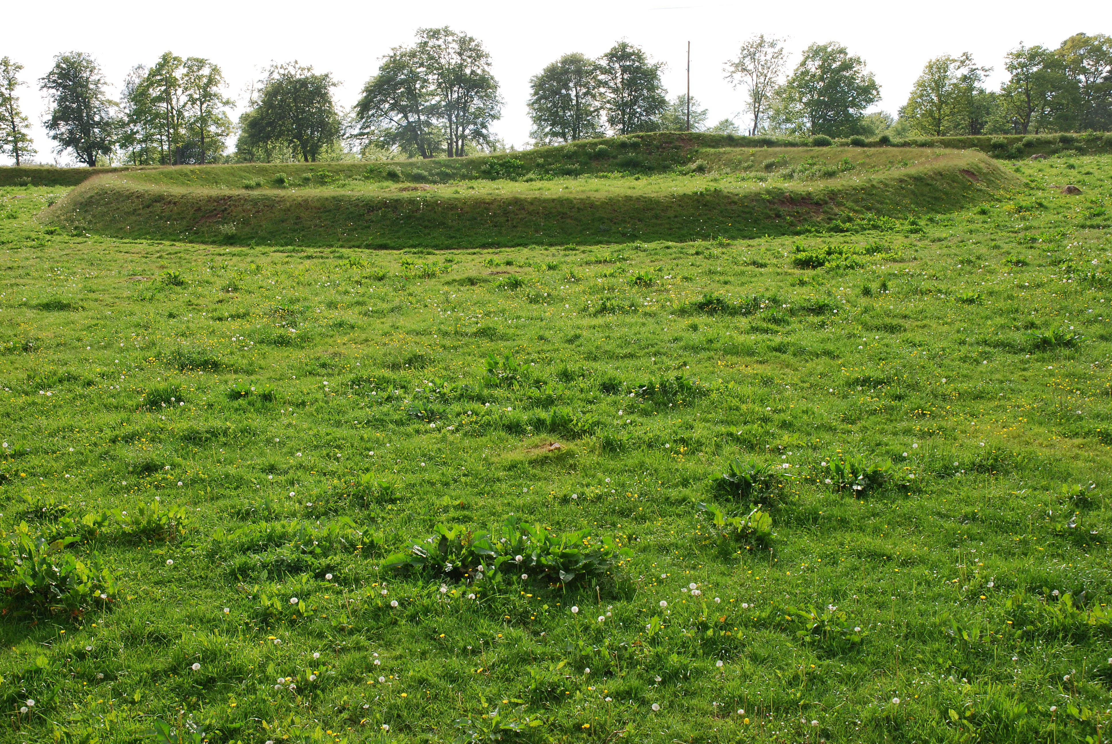 Maya Lin´s 11 Minute Line, Wanås Castle, Sweden